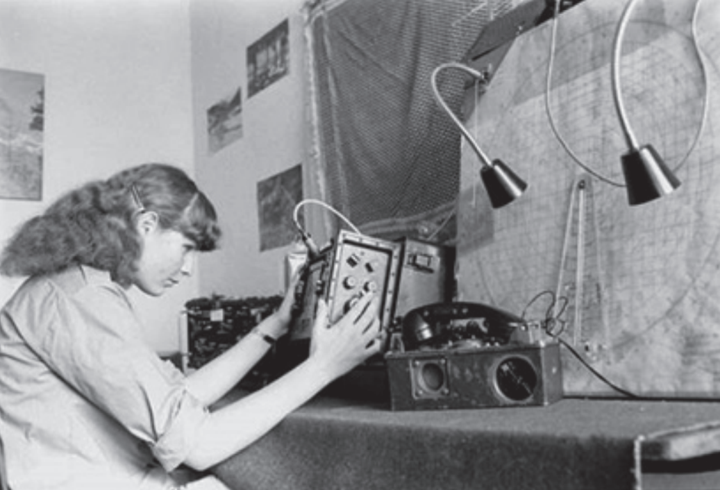 IDF Signal corps women using AN/PPS-5 Ground Radar Set, known as the Keshet Rader in the IDF